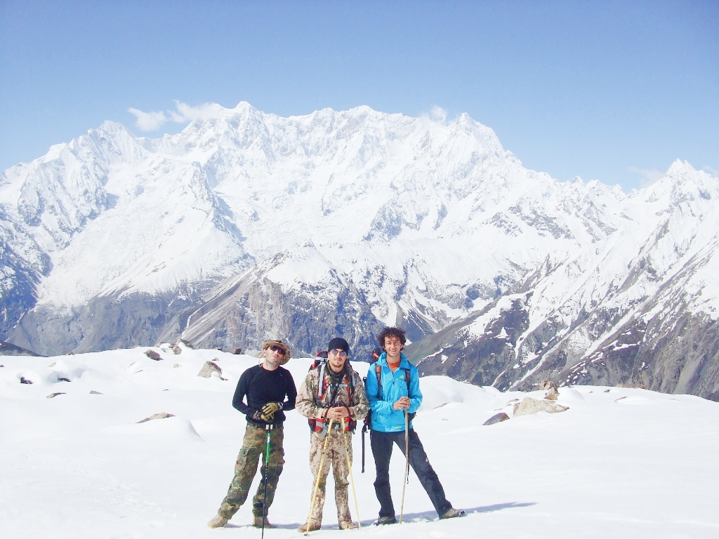 Drakut pass 5000, located in the north of pakistan in Hindu Kush mountain, at Gilgit Baltistan region it connects Yasin valley of Ghizar District of Gilgit Baltistan with Broghil valley of Upper Chitral valley